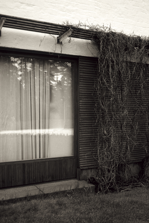 Fireplace, exterior view